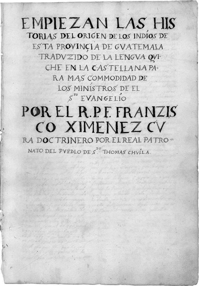 Title page of oldest known Popol Vuh manuscript